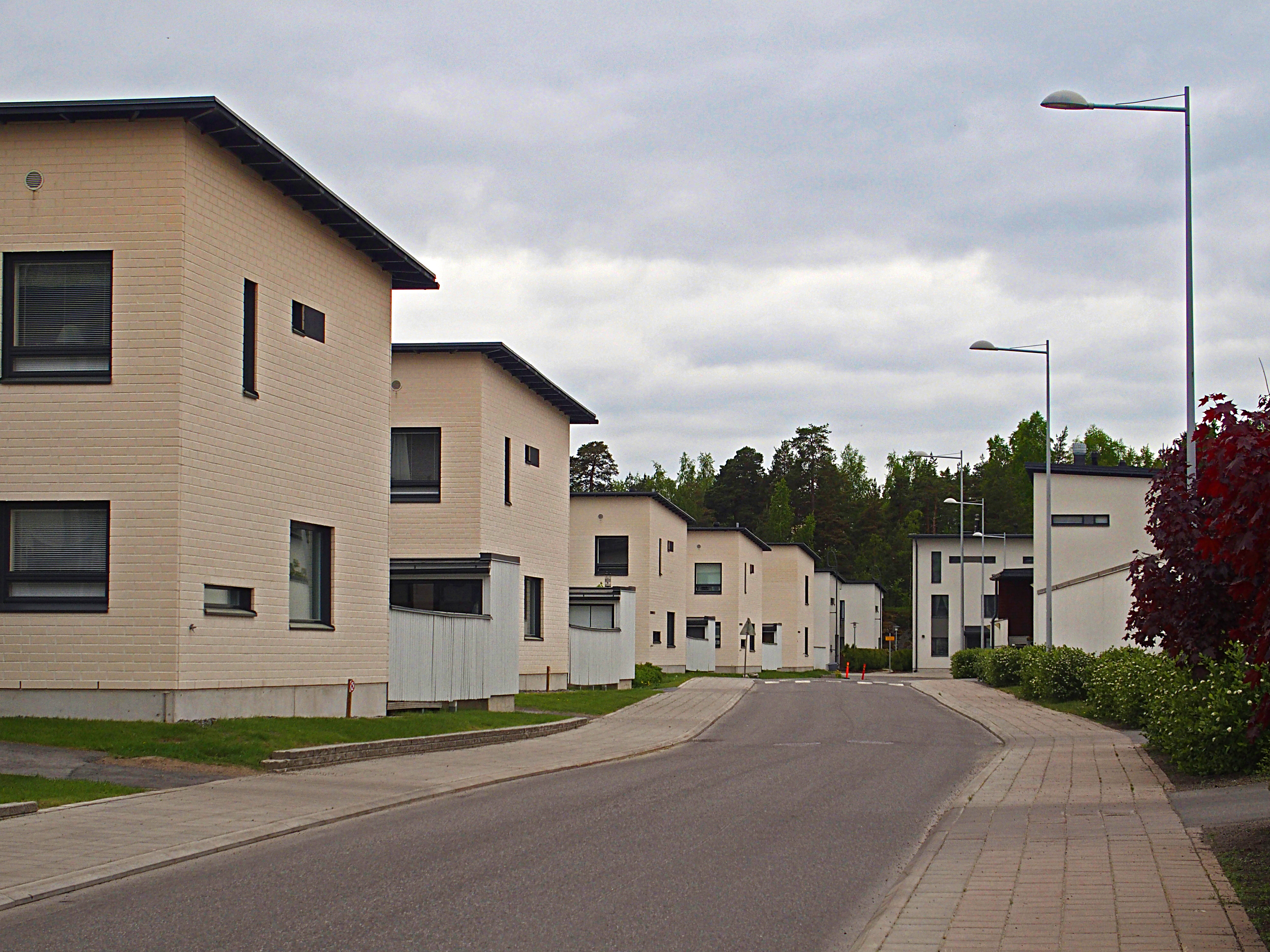 New row houses on Kympinkatu street, Mälikkälä suburb, Turku, Finland.